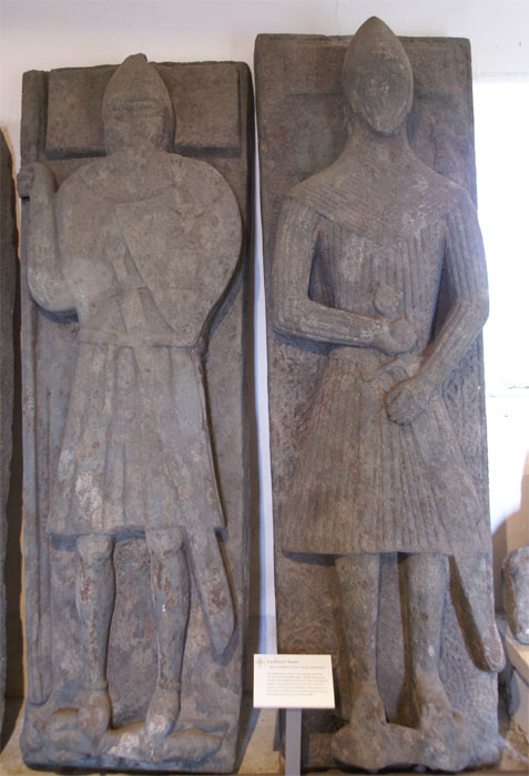 Iona Abbey, Island of Iona, Scotland - Lachlan's Stone (on the right) in the abbey museum